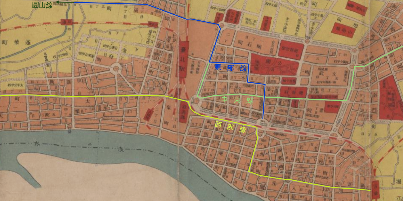 The map of Taihoku Shiden (臺北市電,lit. Taipei Tram) proposal. The background image is published in 1920s.